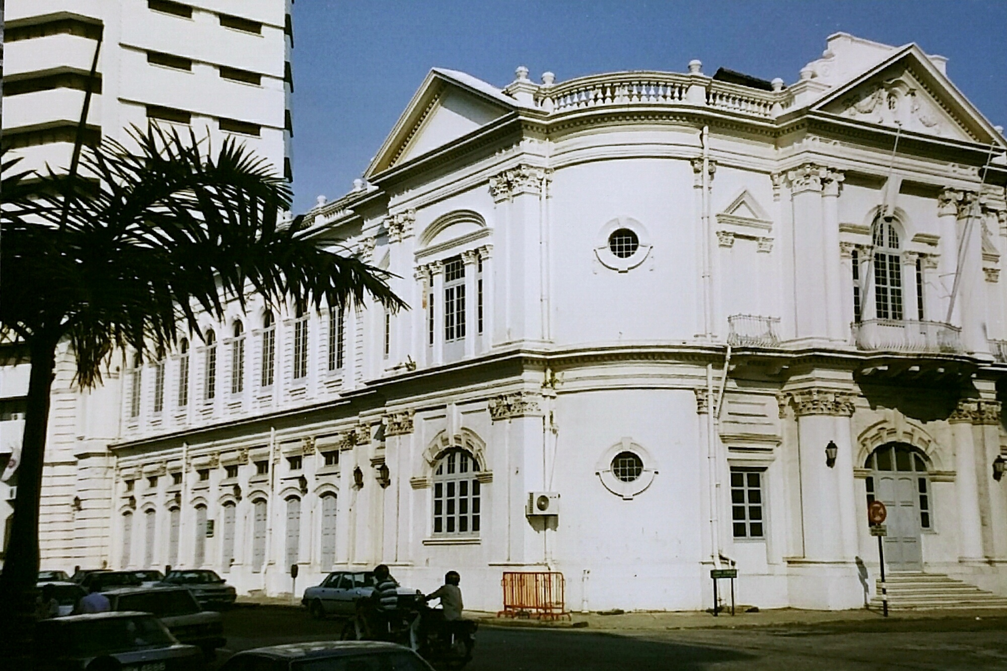 A building in George Town from the British colonial era